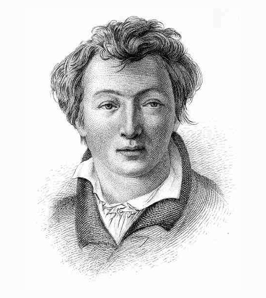 Heinrich Heine (1797-1856)